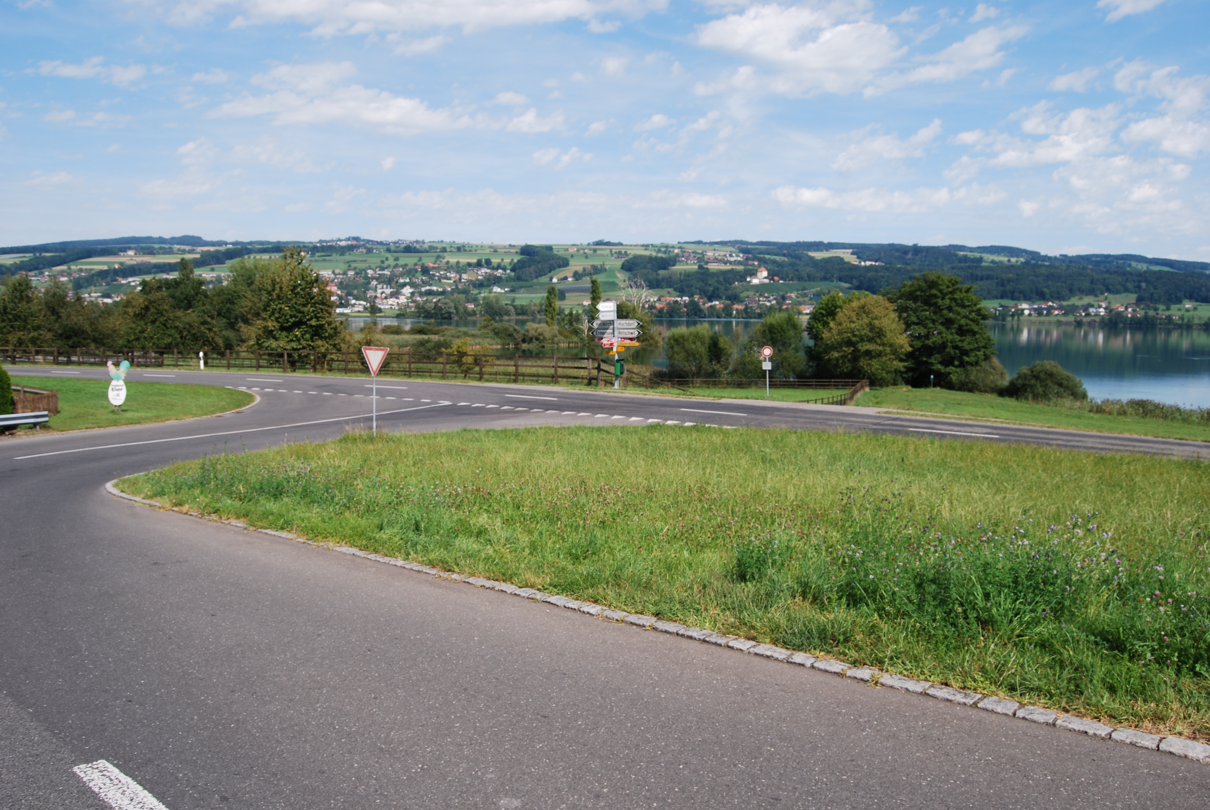 Lake Baldegg at Stäfligen, formar municipality of Retschwil, canton of Lucerne, Switzerland